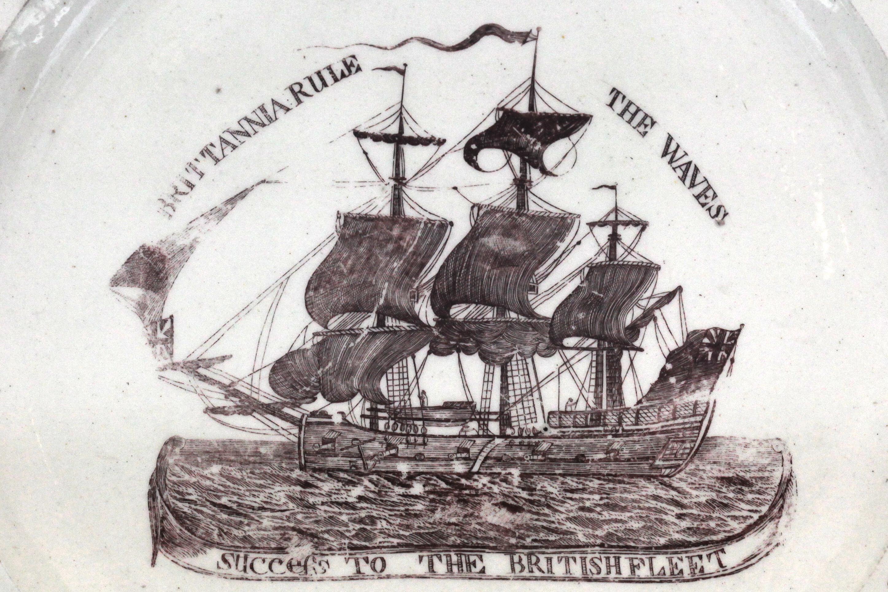 Decorated plate made in Liverpool circa 1793-1794 On display at the Musée de la Révolution française, accession number MRF 1991-18.